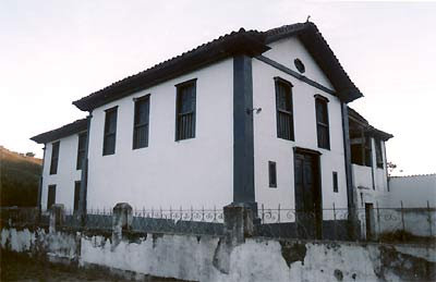 Our Lady of Mont Carmel Chapel in the district of Furquim, Mariana, Minas Gerais, Brazil.